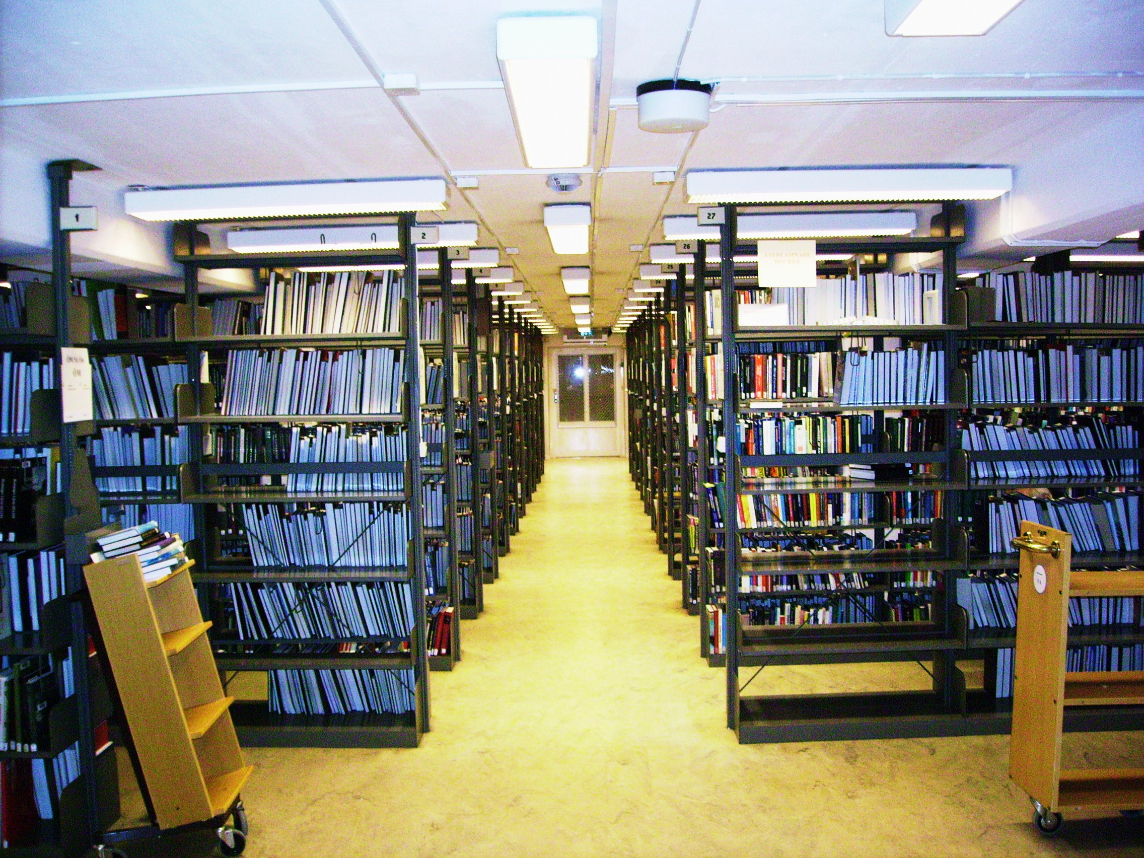 Picture of interior in Göteborgs universitetsbibliotek